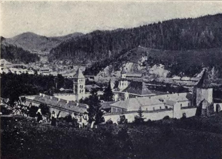 Monastery in Putna, Bukovina, Austria-Hungary, then Romania (after the Treaty of Trianon)